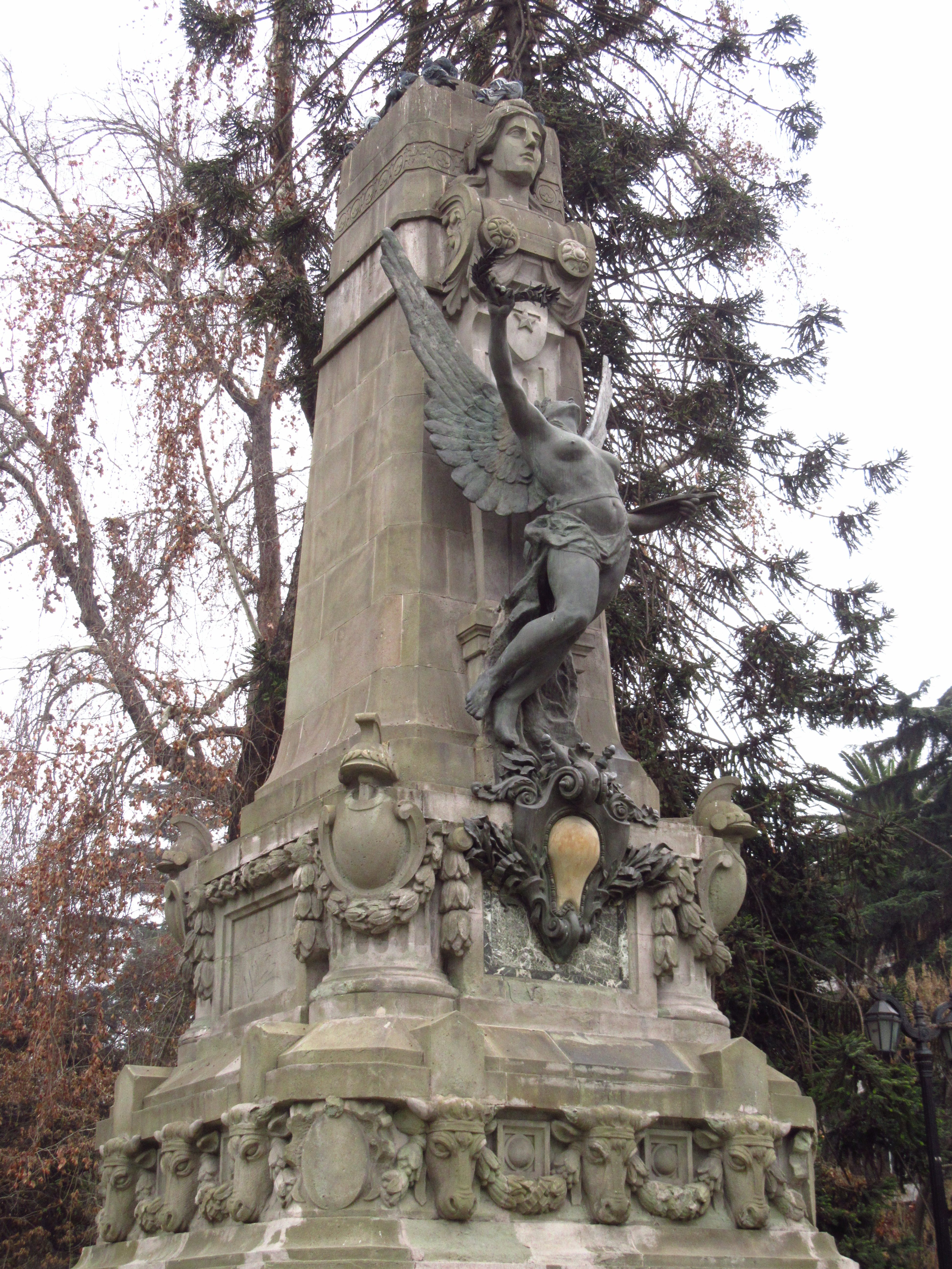 2017 in Santiago de Chile